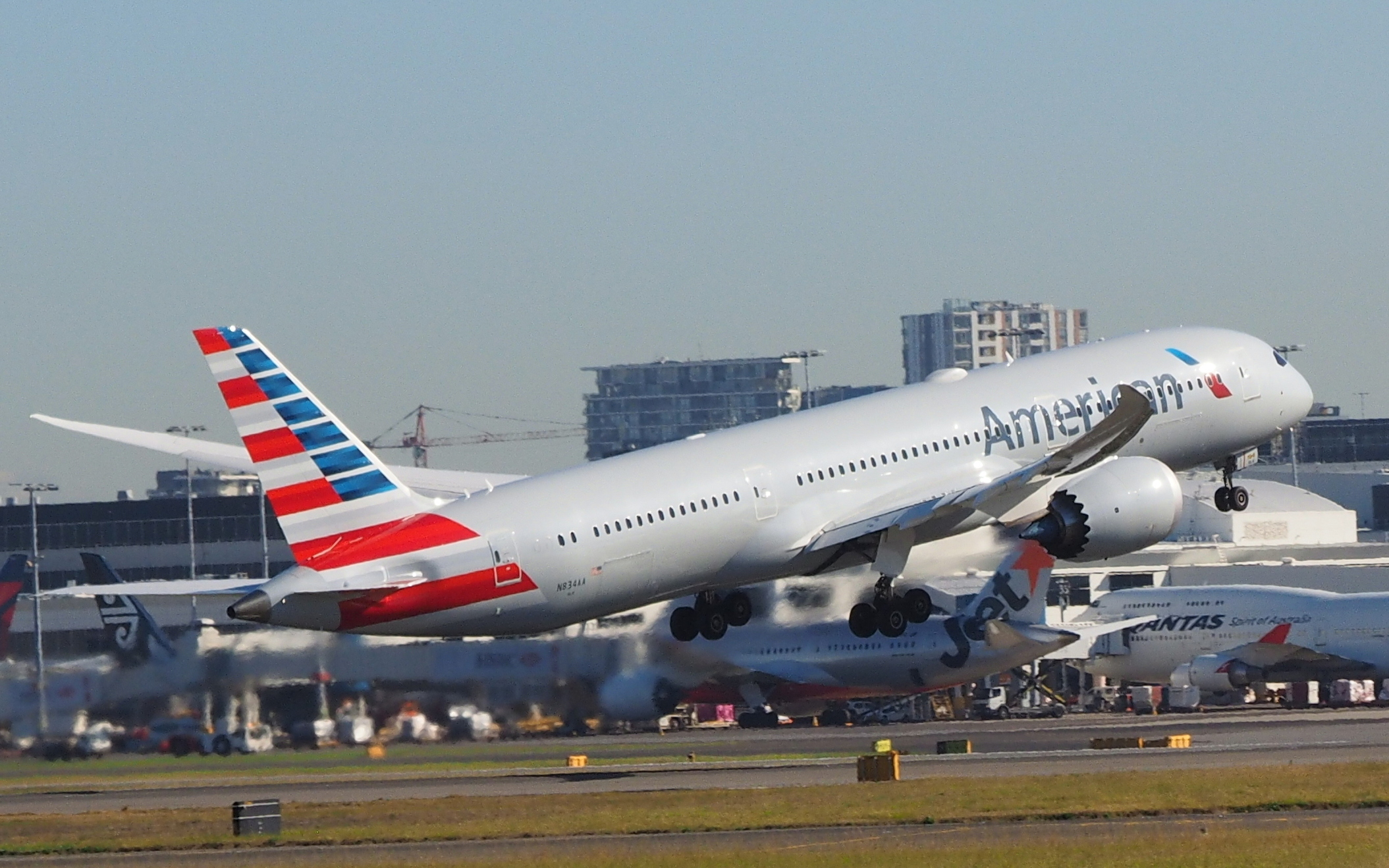 N834AA taking off from Sydney Airport. The aircraft was bound for Los Angeles.